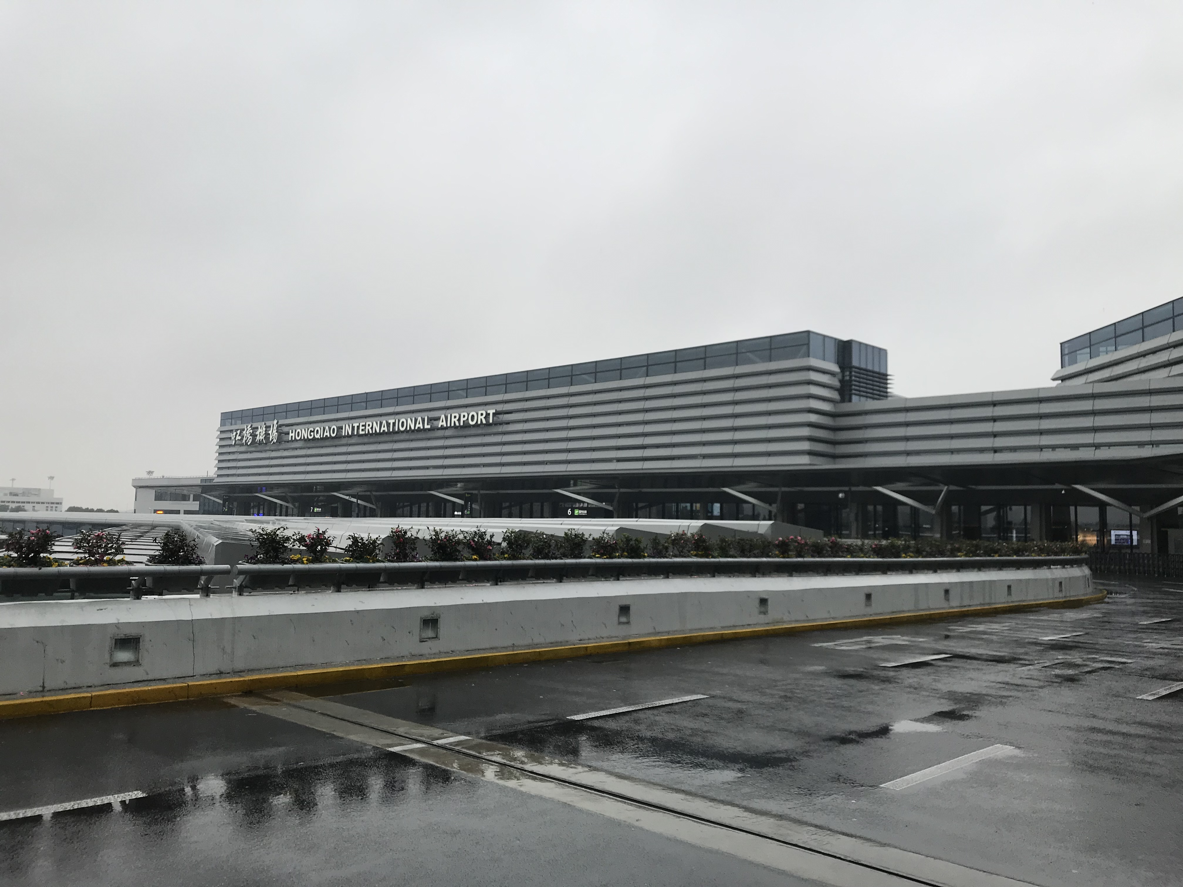 Dedicated for Spring Airlines' domestic flights